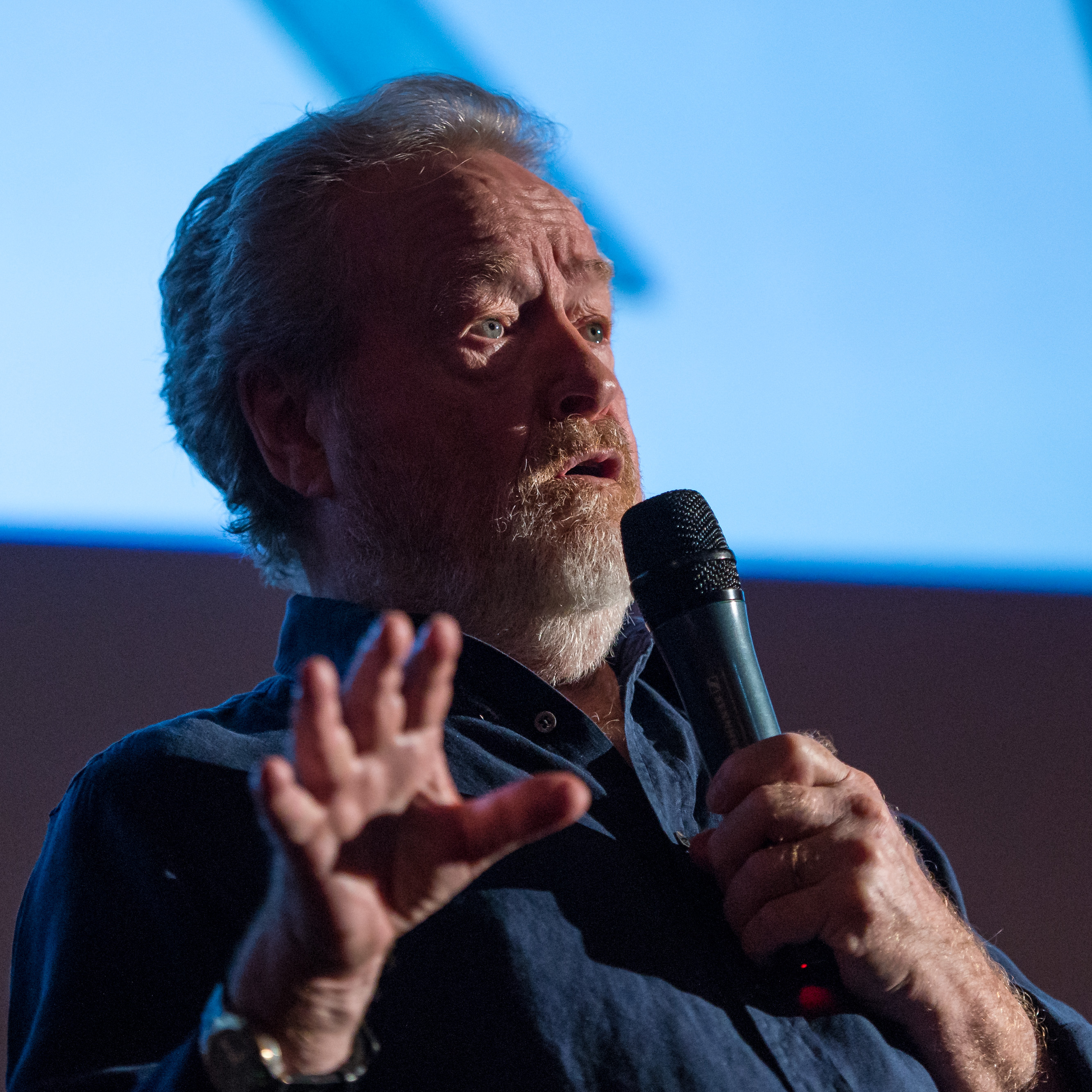 Director Ridley Scott participates in a question and answer session about NASA’s journey to Mars and the film ”The Martian,” Tuesday, Aug. 18, 2015, at the United Artist Theater in La Cañada Flintridge, California. NASA scientists and engineers served as technical consultants on the film. The movie portrays a realistic view of the climate and topography of Mars, based on NASA data, and some of the challenges NASA faces as we prepare for human exploration of the Red Planet in the 2030s.